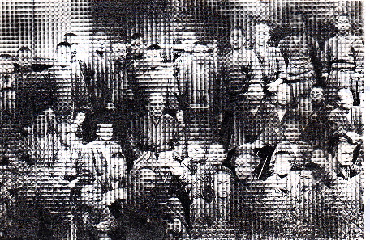 Sawara Morizumi with his Aidu students